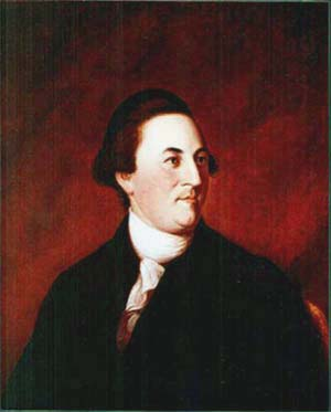 William Paca, former Governor of Maryland and signer of the Declaration of Independence.